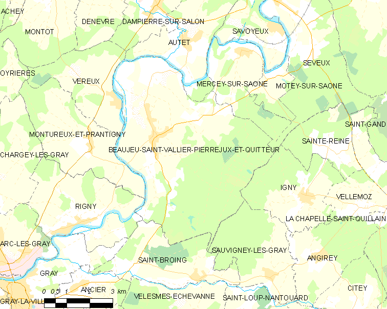 Map of French municipality